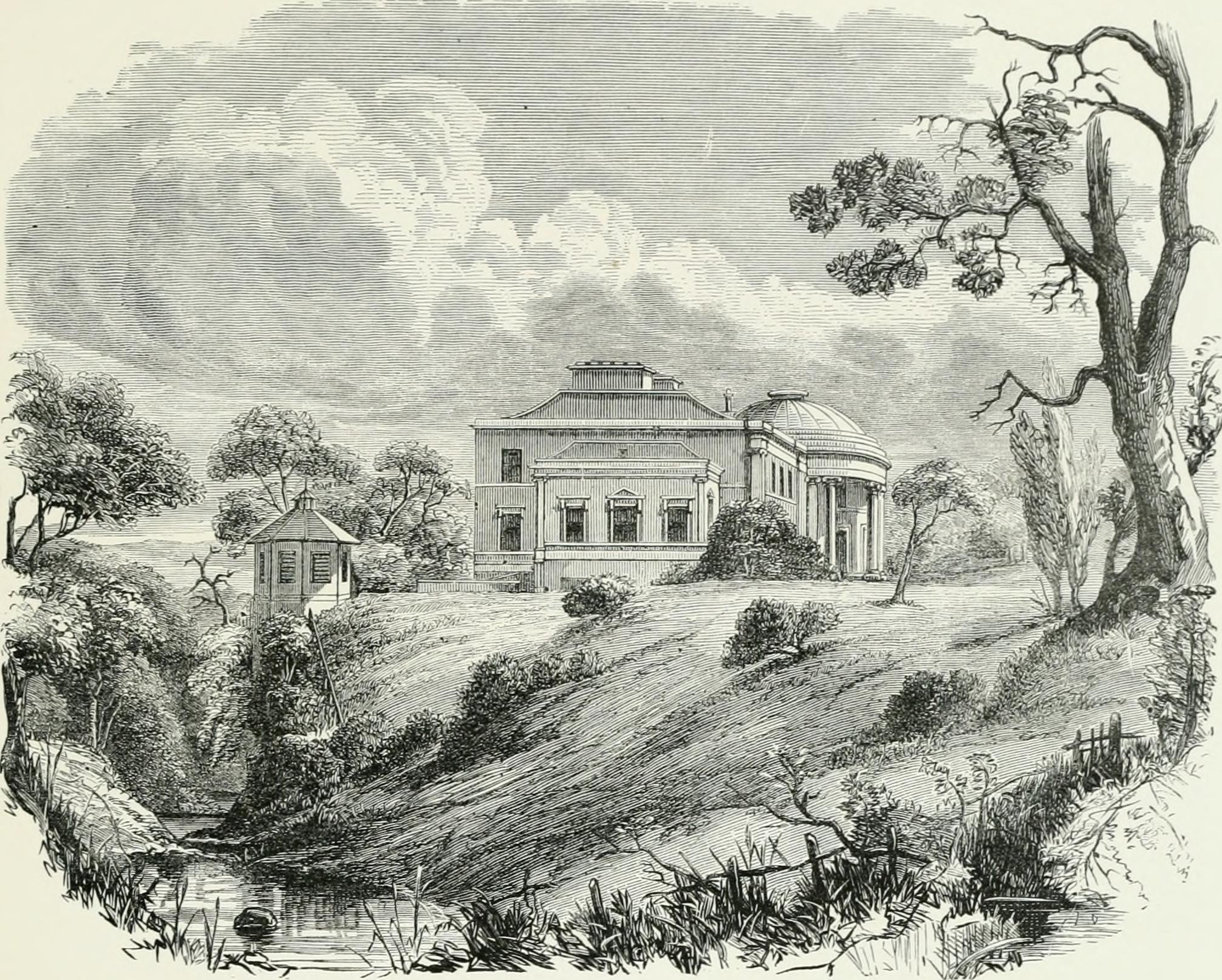 Title: Ordnance gazetteer of Scotland : a survey of Scottish topography, statistical, biographical, and historical Year: 1882 (1880s) Authors: Groome, Francis Hindes, 1851-1902 Subjects: Publisher: Edinburgh : T.C. Jack Text Appearing Before Image: Culdiiighuiu Irioiy, Iki wickohirc, jirior to restoration of lbJ4. XXI Text Appearing After Image: Coilsfield, Tarbolton, Ayrshire (now Montgomerie). The Mansion of Colonel Hugh Montgomery, afterwardsEarl of Eglinton, where Burnss Highland Mary served as dairymaid. Ye banks and braes, and streams aroundThe castle o Montgomery.